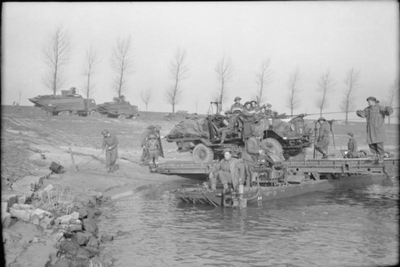 IWM caption : A lorry-mounted 40mm Bofors anti-aircraft gun of 15th (Scottish) Division crossing the Rhine near Xanten.